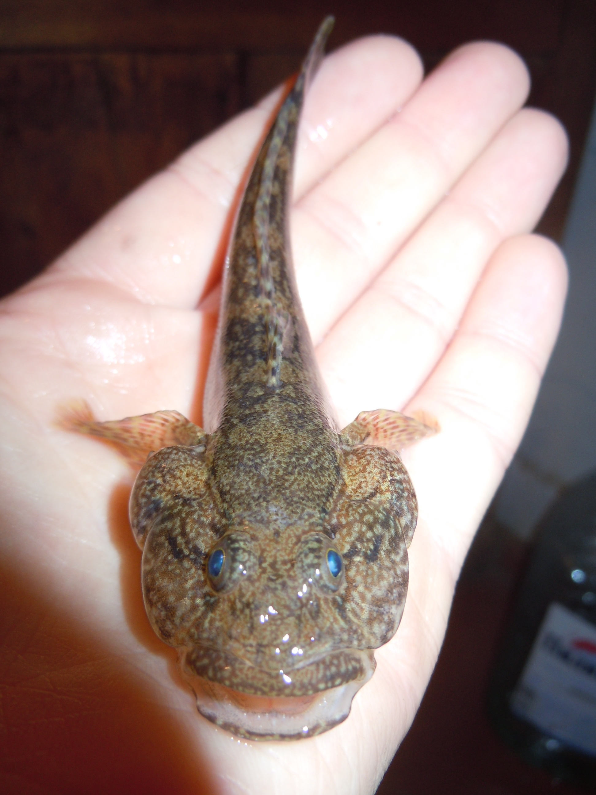 Gorlap goby (Ponticola gorlap) from the northern Caspian Sea